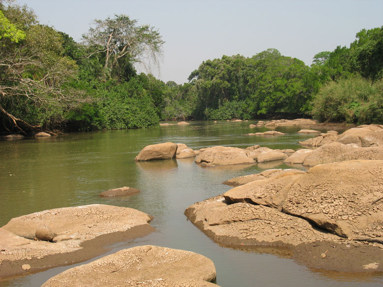 The Noun River (West Cameroon), during the dry season, a few kilometers after Tenjouonoun (Bandjoun)